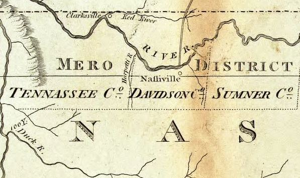 Detail from Bradley's 1796 United States postal map showing the "Mero District" around Nashville, Tennessee.